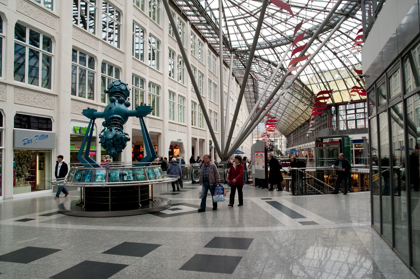 Goethe Galerie in Jena, Germany.